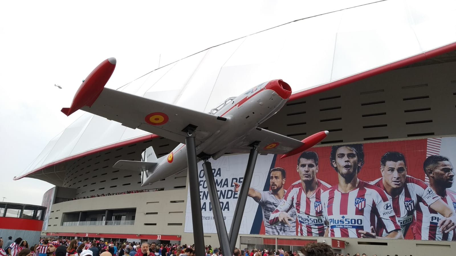 Hispano Saeta